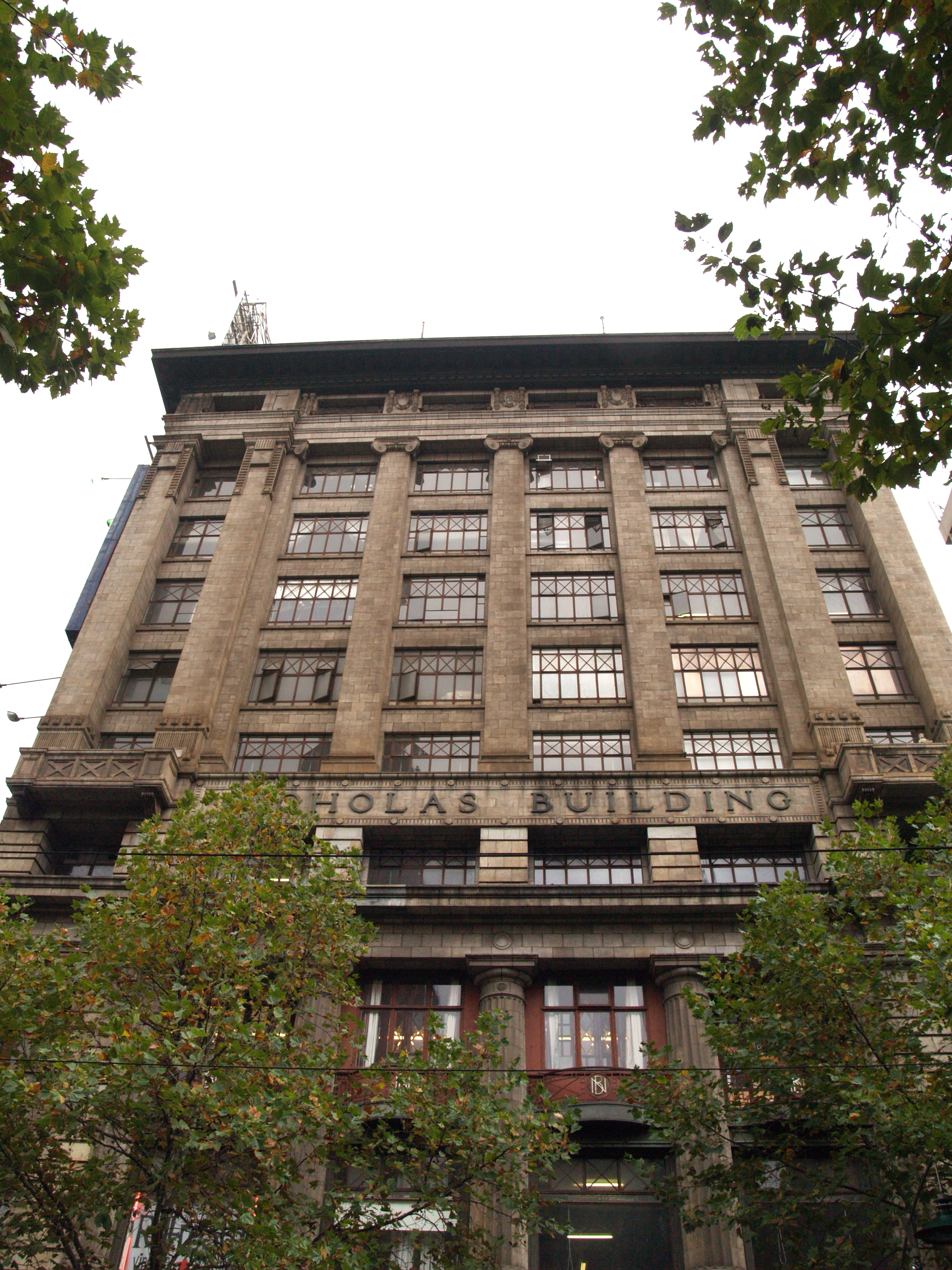 This building was designed by melbourne architect, Harry Norris.